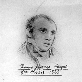 Thomas Jeffries in 1826